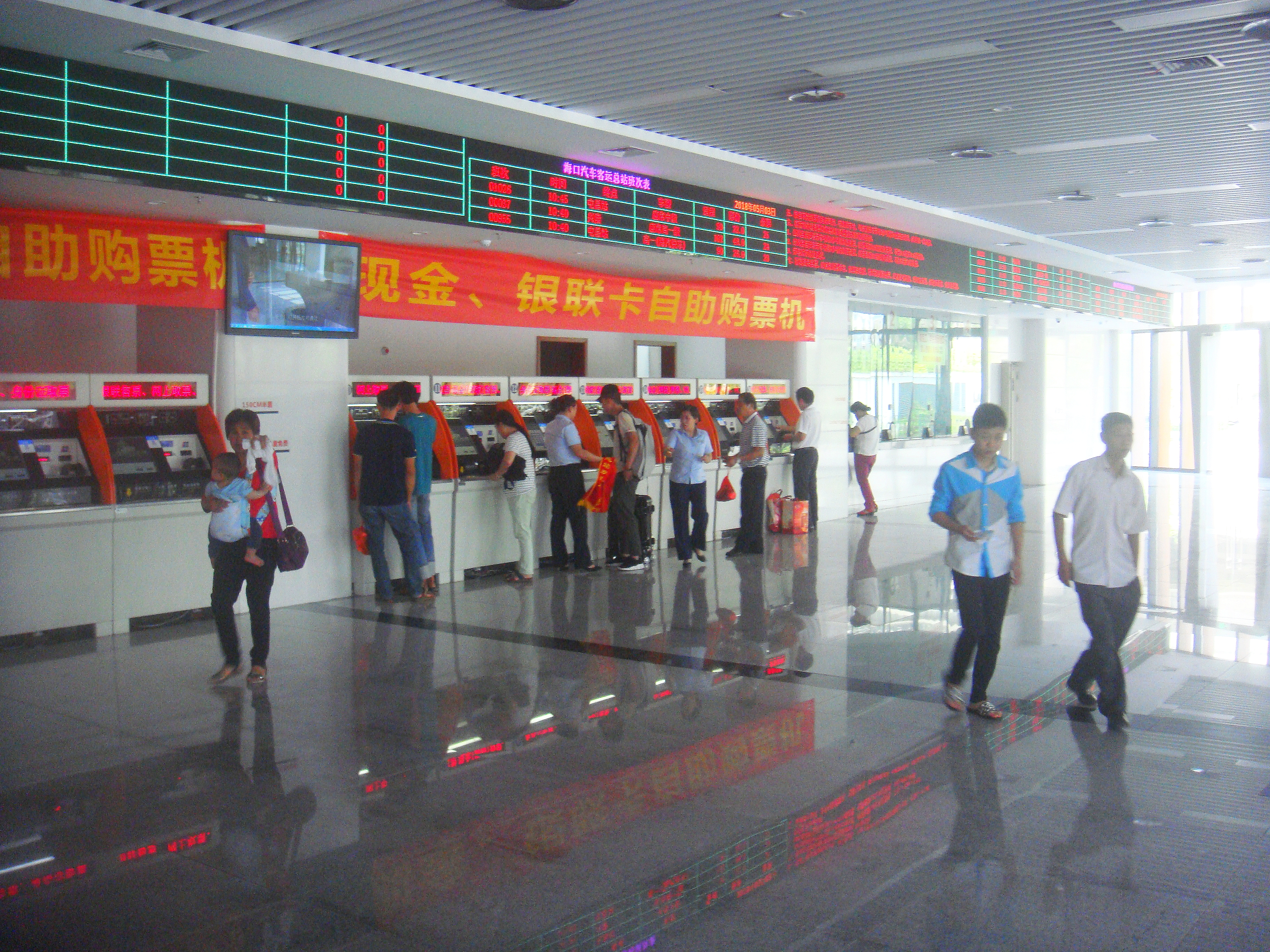 Haikou Transportation Center ticket purchase area showing automatic machines and wickets